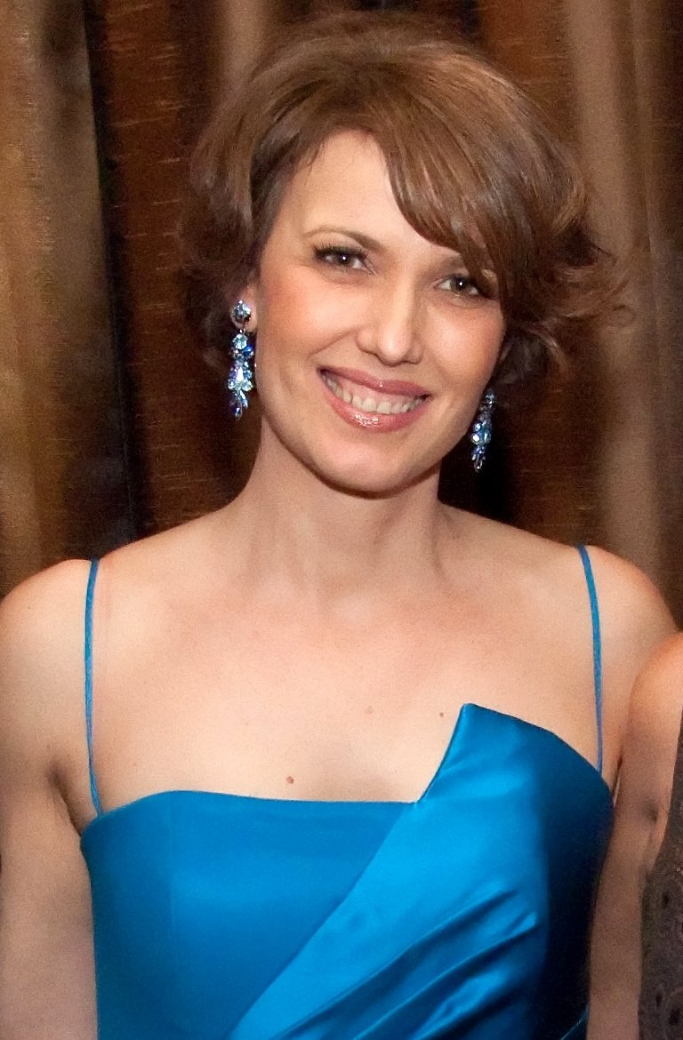 Ian Hanomansing, Gloria Macarenko, Adrienne Bakker and Belle Puri - Royal Columbian Hospital Foundation Gala Event